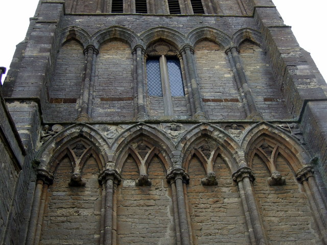 Church of England parish church of St Peter, Raunds, Northamptonshire: stone carvings on the Early English west tower. On the north side in the corners above the arches are a left-handed fiddler on the right and a pipe and tabor player on the left.